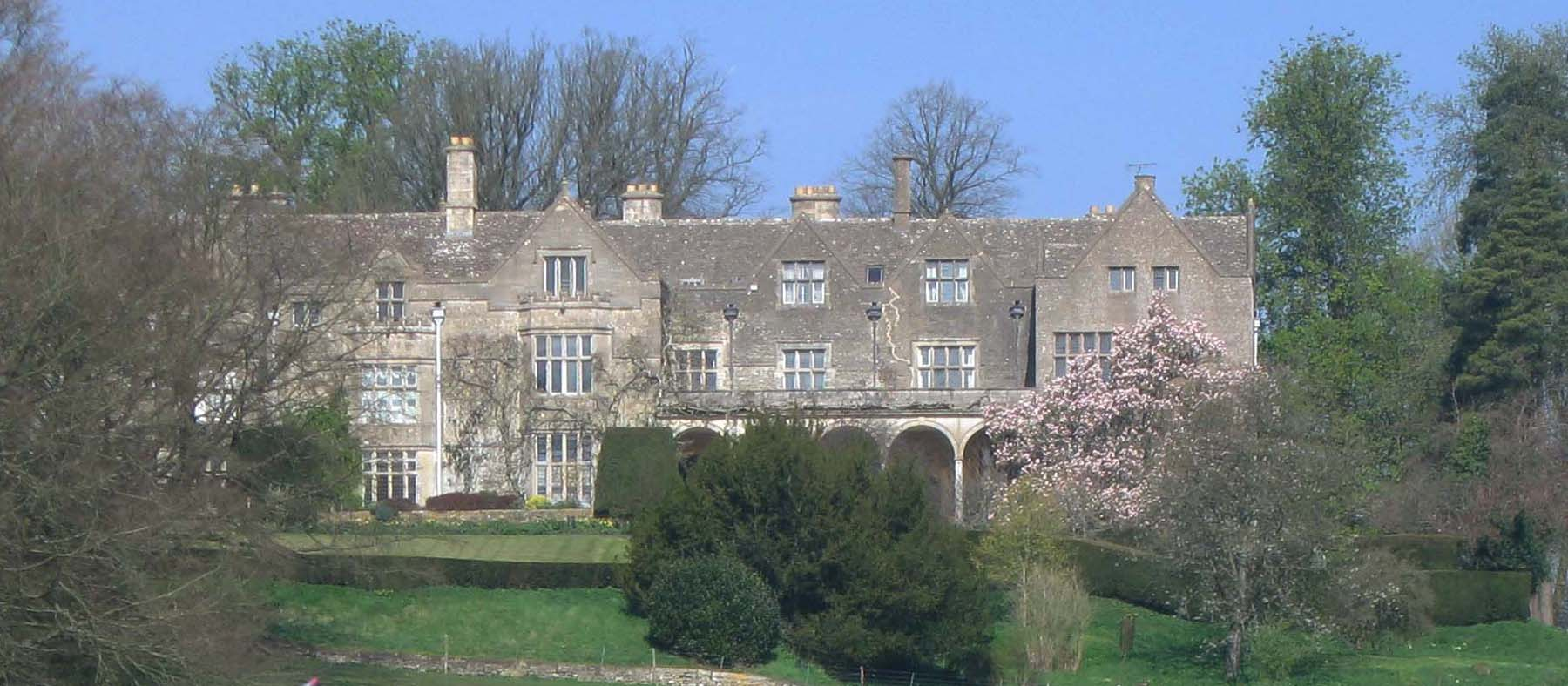 Seen from the footpath to the south.